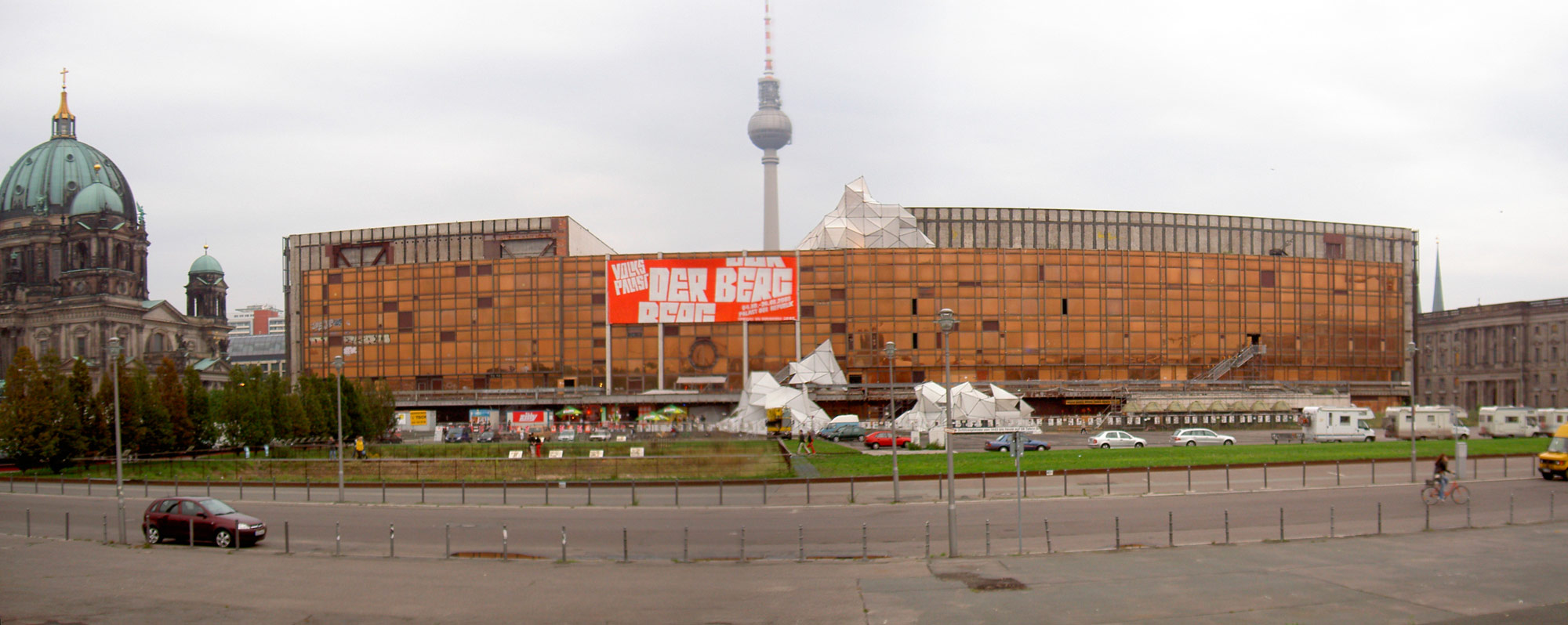 The "Palast der Republik" ("republic's palace) in Berlin seen from the TV-Tower